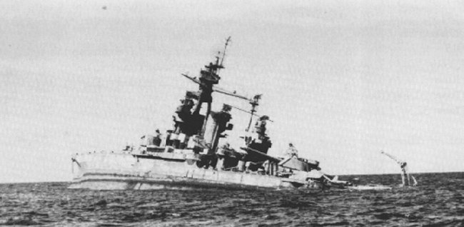 The U.S. Navy battleship USS Pennsylvania (BB-38) being scuttled off Kwajalein after being subjected to both "Crossroads" atomic tests. She was towed to Kwajalein after the explosions and studied there. Due to the large amount of radiation on board, she was towed to sea and scuttled at the conclusion of the radiation studies.